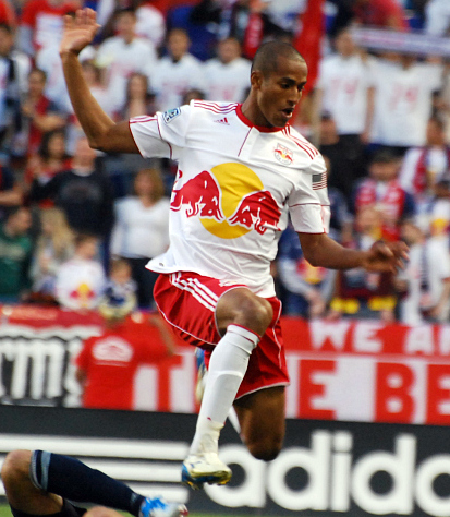 Costa Rican footballer Roy Miller. Photo: April 30, 2011.